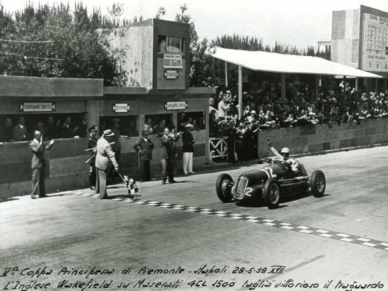 John Wakefield in entry #12, Maserati 4CL wins the V Coppa Principessa di Piemonte in Napoli, 28 May 1939. He was british and entered as a "privateer". All other cars were Maseratis too, mostly italians, some were "works" entries (=factory cars) [1]